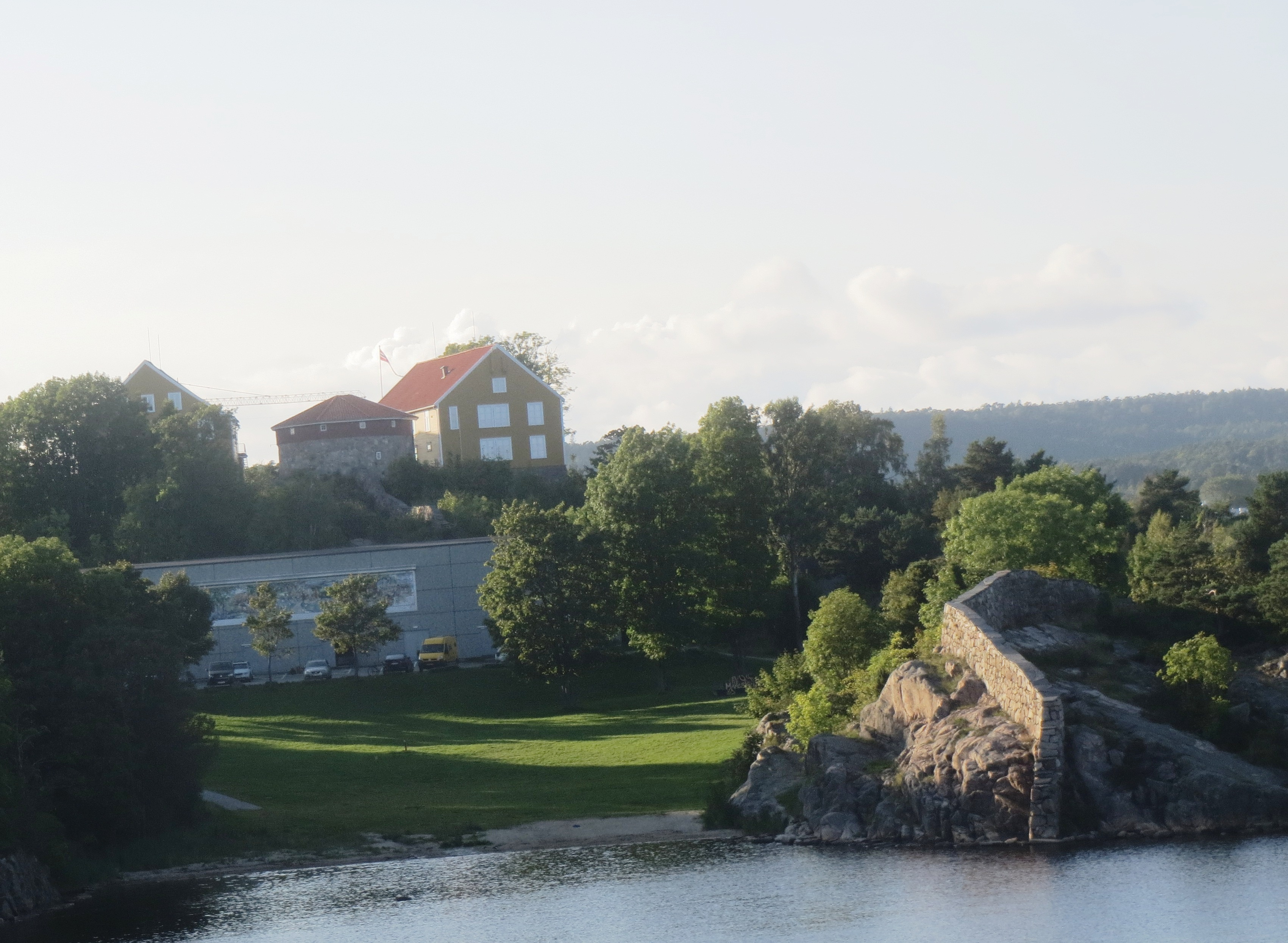 Bendiksbukta at Odderøya, Kristiansand, Norway, as seen from the north